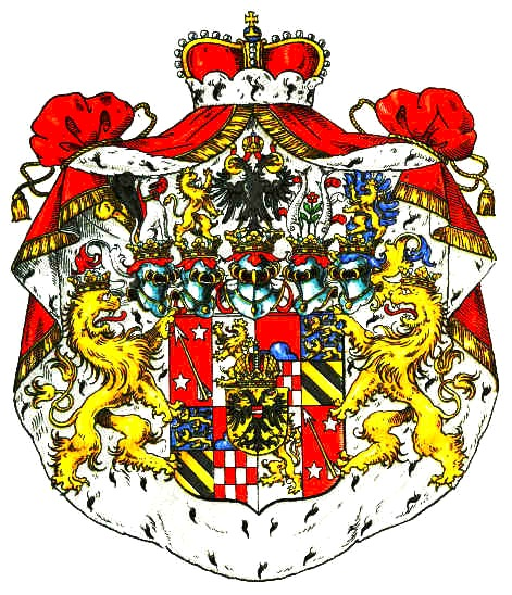 Coat of arms of the Princes of Pless.